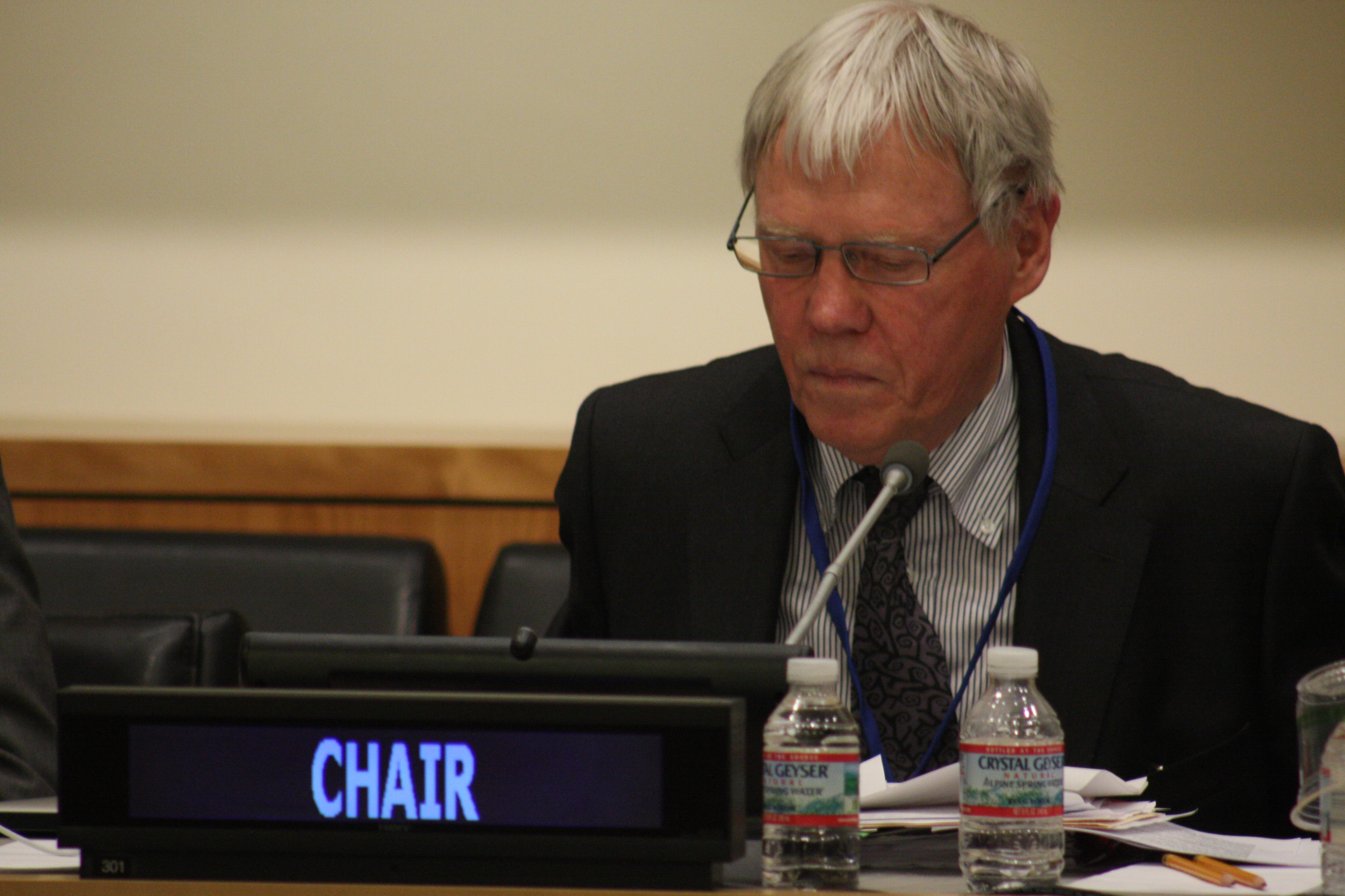 28th Session of the United Nations Group of Experts on Geographical Names – 28 April to 2 May 2014, New York. The Vice-Chair of the United Nations Group of Experts on Geographical Names – Ferjan Ormeling.